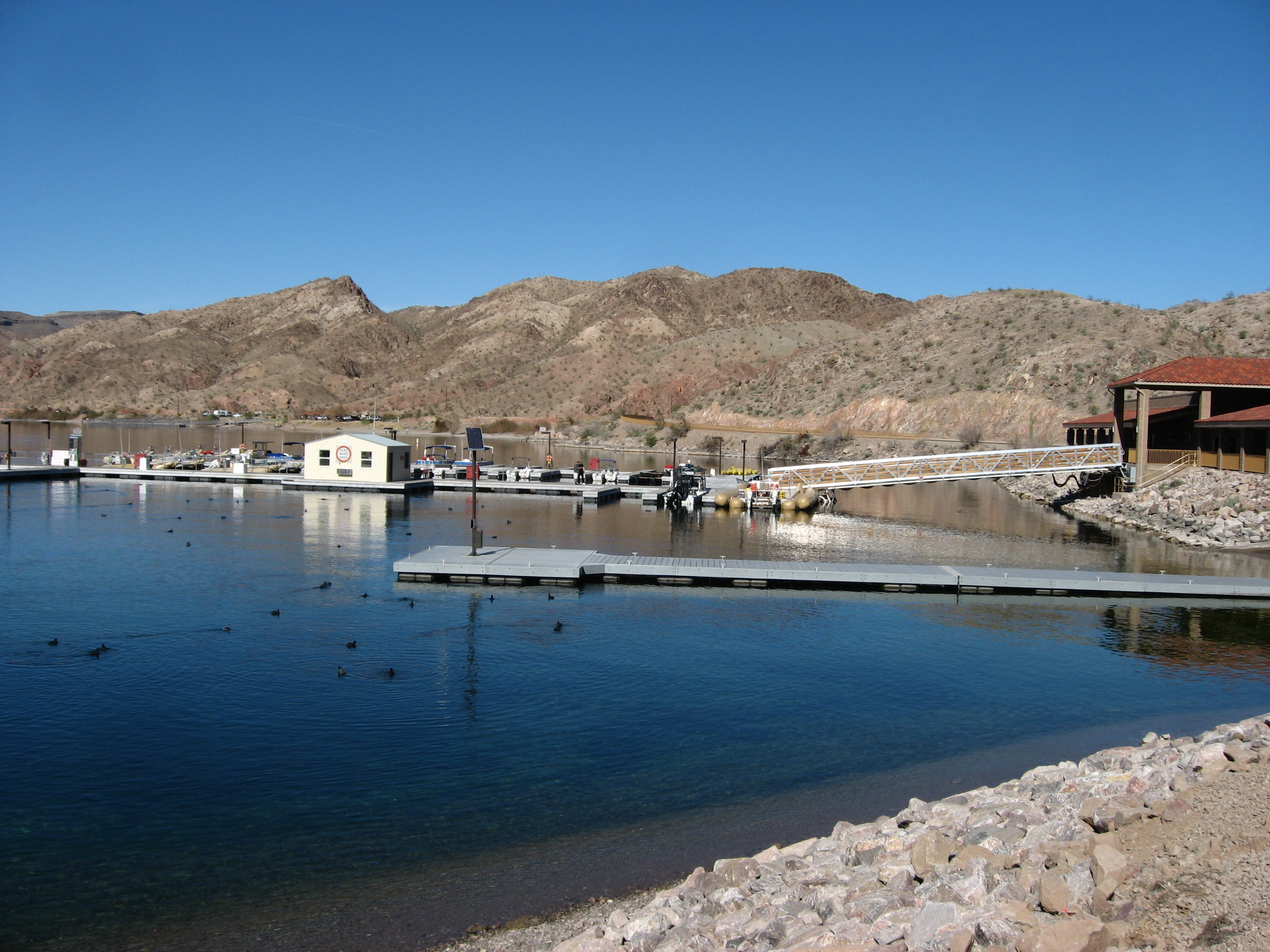 Willow Beach is located on the Arizona side of the Colorado River between Lake Mead and Lake Mohave. Both Lake Mead and Lake Mohave are part of the Lake Mead National Recreation Area administered by the U.S. National Park Service.Willow Beach is the location of the Willow Beach National Fish Hatchery which is ran by the US Fish and Wildlife Service, Department of the Interior. The hatchery produces Rainbow Trout for sport fishing. Rainbow Trout are stocked every Friday morning year round. The hatchery also raises Razorback Suckers and Bonytail Chub, both endangered species.